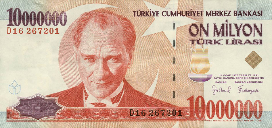 10 Million TL